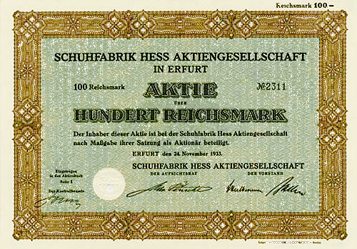 Picture of an issued stock of shoe factory Schuhfabrik Hess Aktiengesellschaft (formerly M. & L. Hess KG) of Erfurt, Thuringia, Germany. The document shows the issue date of 24 November 1933 and its value of 100 Reichsmark, signed by the executive board and the supervisory board. M. & L. Hess stands for the two founders Maier Hess (1849–1915) and Louis Hess.